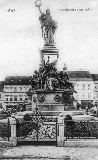 Monument to the Martyrs of Arad 02